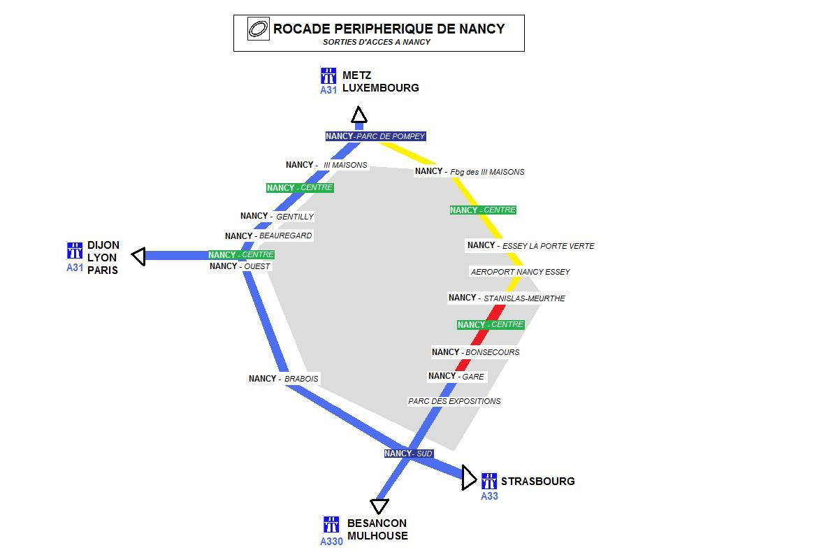 Beltway of Nancy